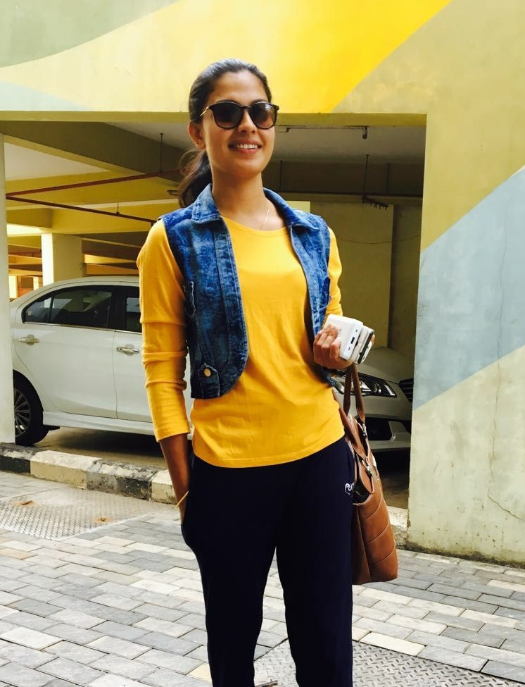 Anusree is wearing sunglass